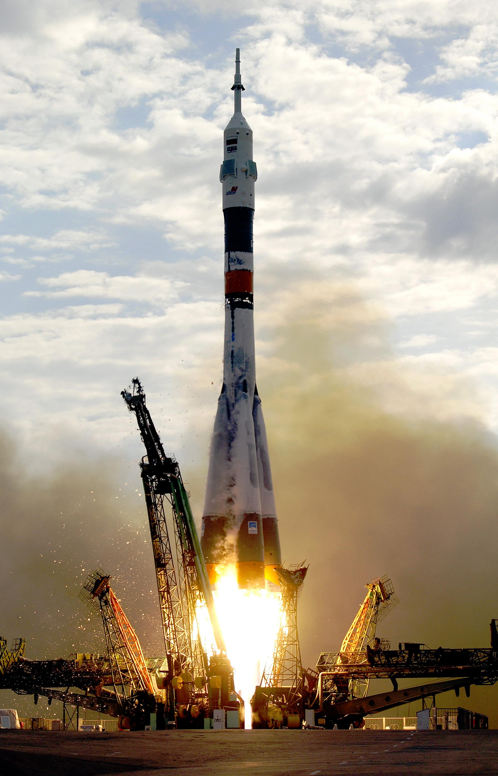 Astronaut Edward T. Lu, NASA ISS science officer and flight engineer for Expedition Seven, and Cosmonaut Yuri I. Malenchenko, commander, were launched onboard a Soyuz rocket at 9:53 a.m. from Baikonur, Kazakhstan.